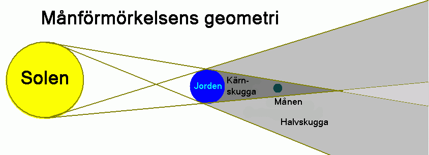 Lunar eclipse